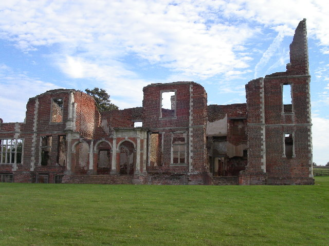 Houghton House north facade